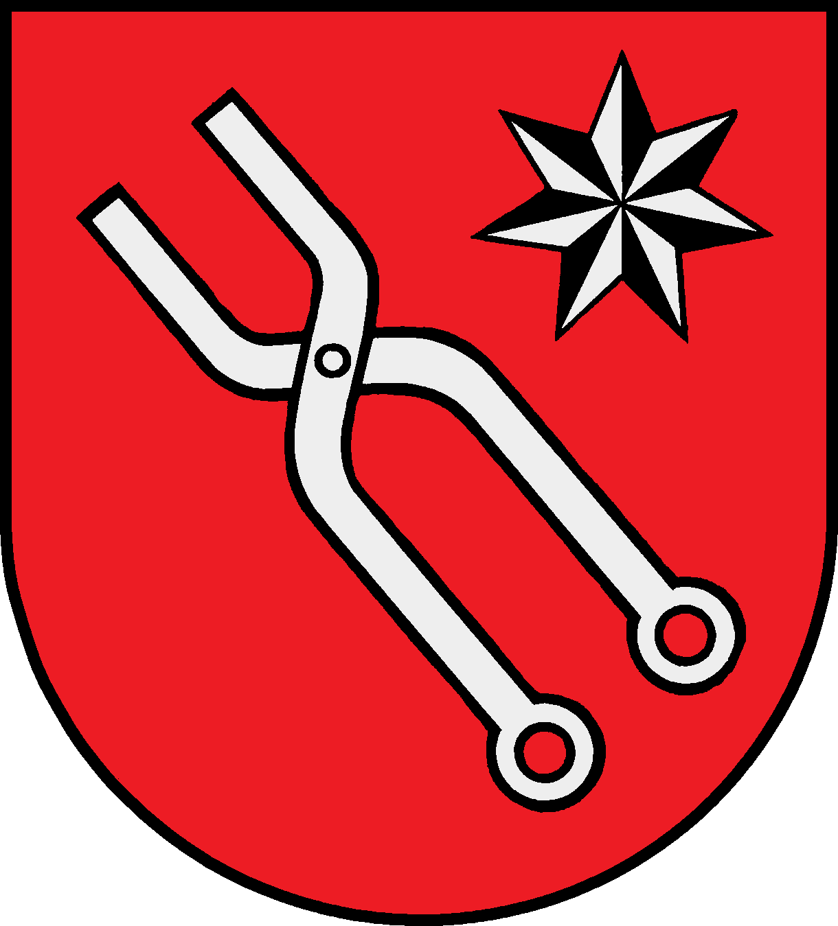 Coat of arms of the municipality Giekau in Schleswig-Holstein, Germany.